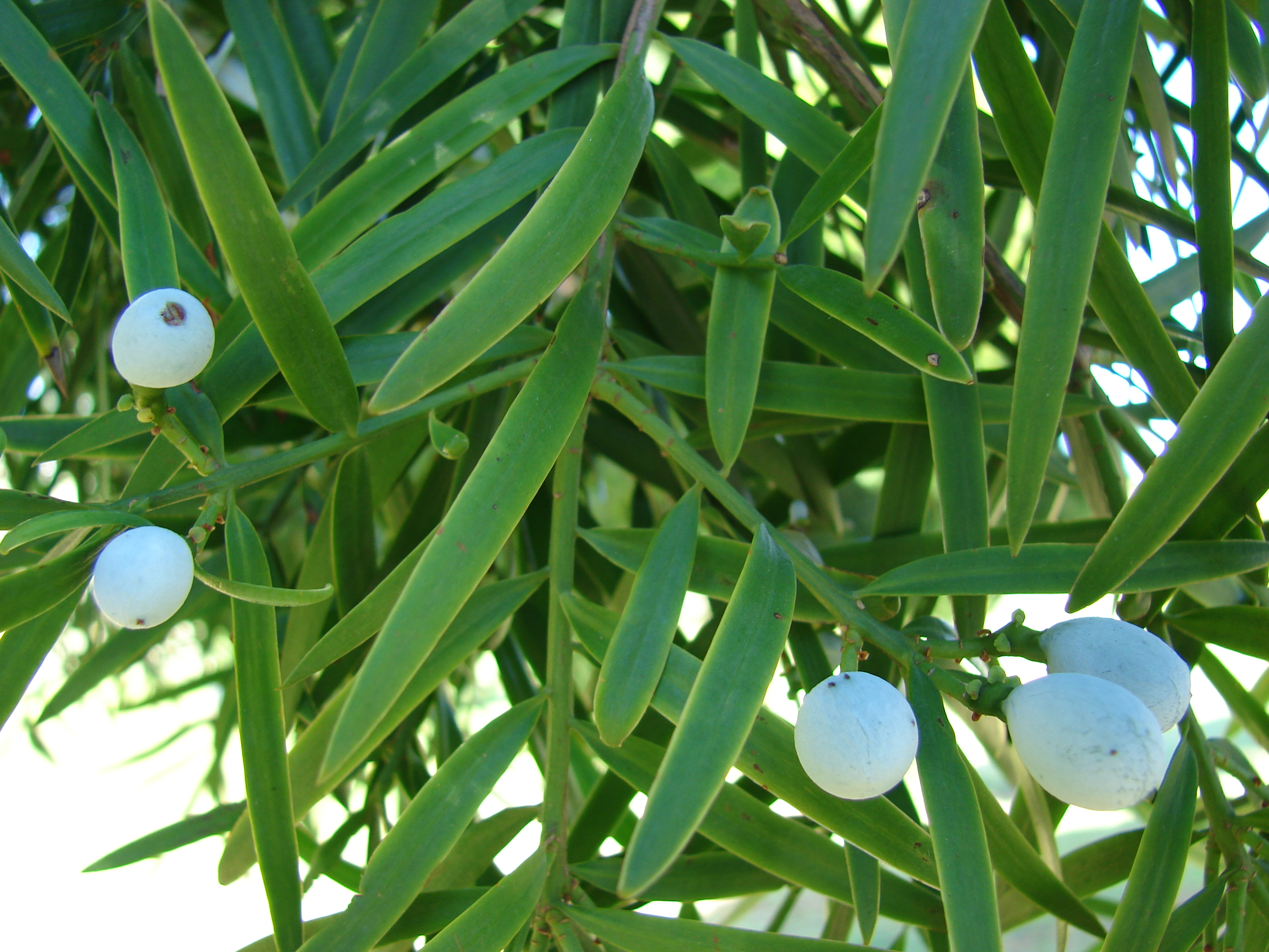 Afrocarpus gracilior (leaves and immature cones). Location: Maui, Eddie Tam Makawao